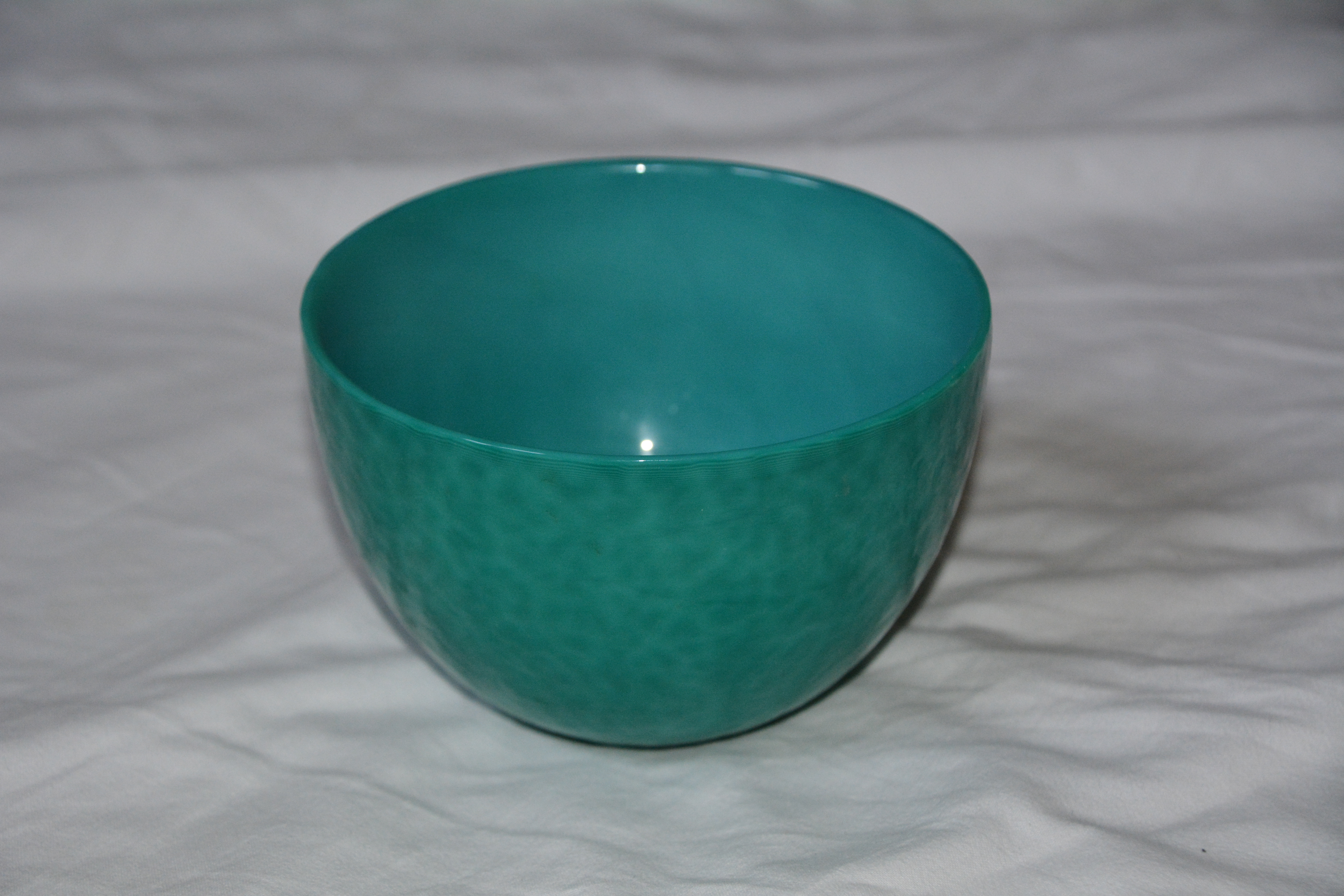 Eva Englund, Malakit glassware series, Pukeberg Glass Factory